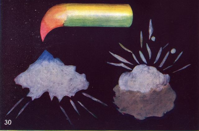 A thought form from Thought-Forms, by Annie Besant & C.W. Leadbeater.